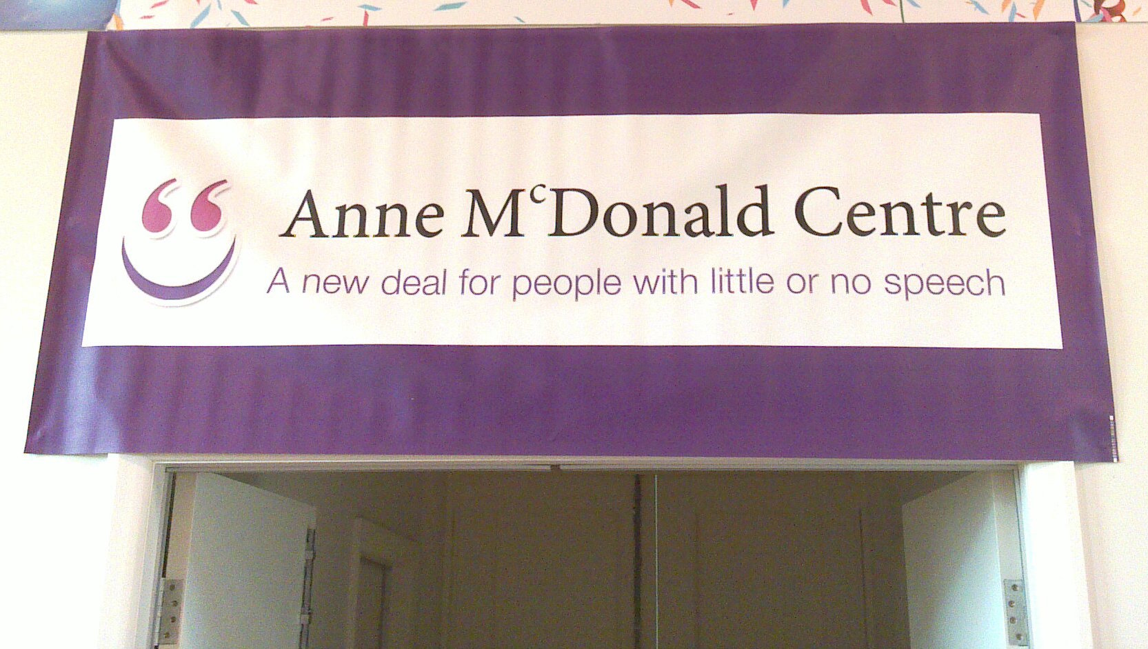 Sign of the Anne McDonald Centre in Melbourne (formerly the DEAL Communication Centre). Directed by Rosemary Crossley, it is a centre of the controversial 'facilitated communication' treatment supposed to allow disabled people to express their thoughts, hence the slogan: 'a new deal for people with little or no speech'. (FC, where a 'facilitator' holds a disabled person's hand and encourages them to point to letters is considered pseudoscience by many outside experts in disabled care, who argue that it works like an Ouija board: the facilitator pushes and pulls the disabled person's hand towards letters that express coherent meaning, even if they do not realise it.)